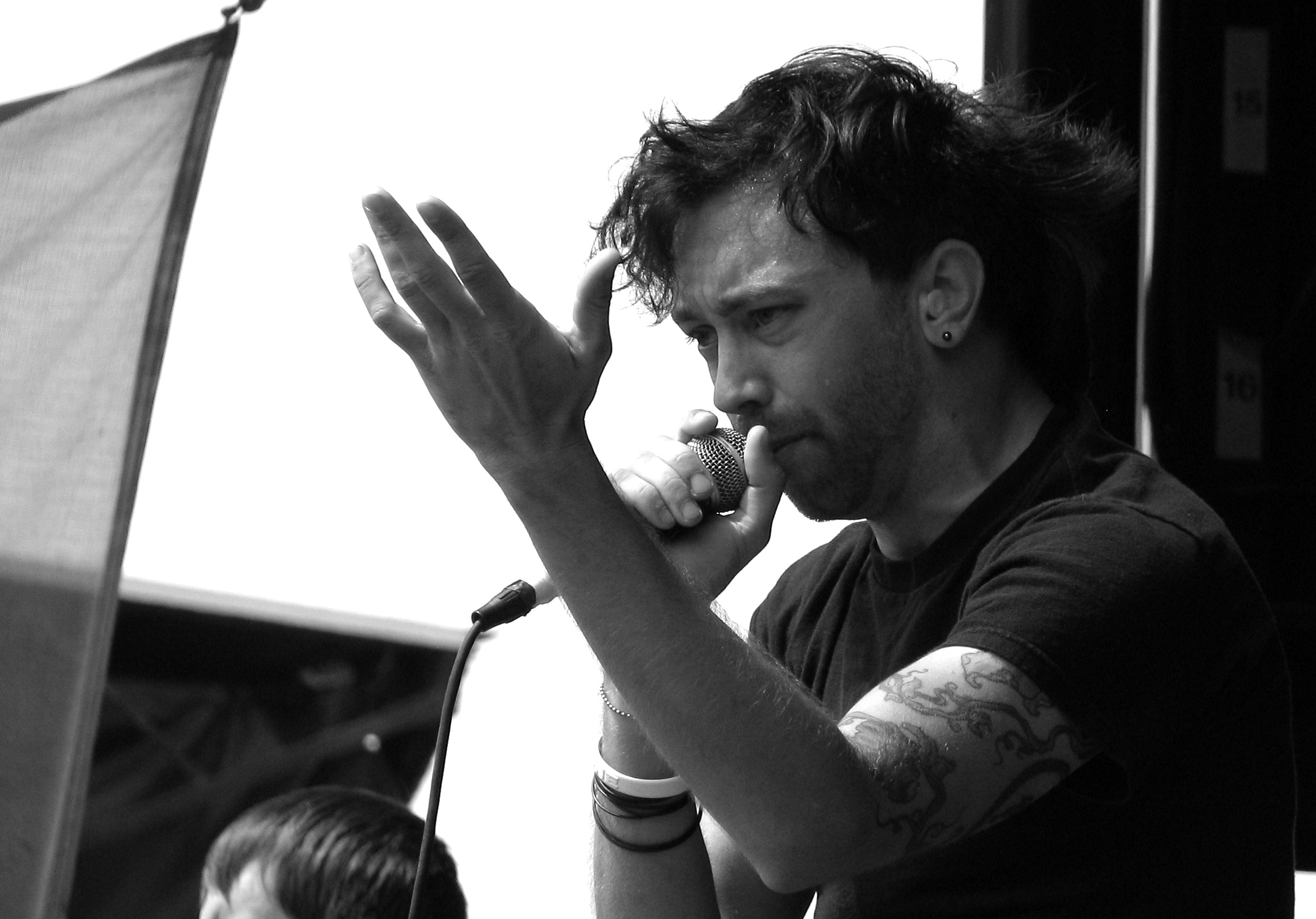 Rise Against @ Warped Tour 2006, Vancouver